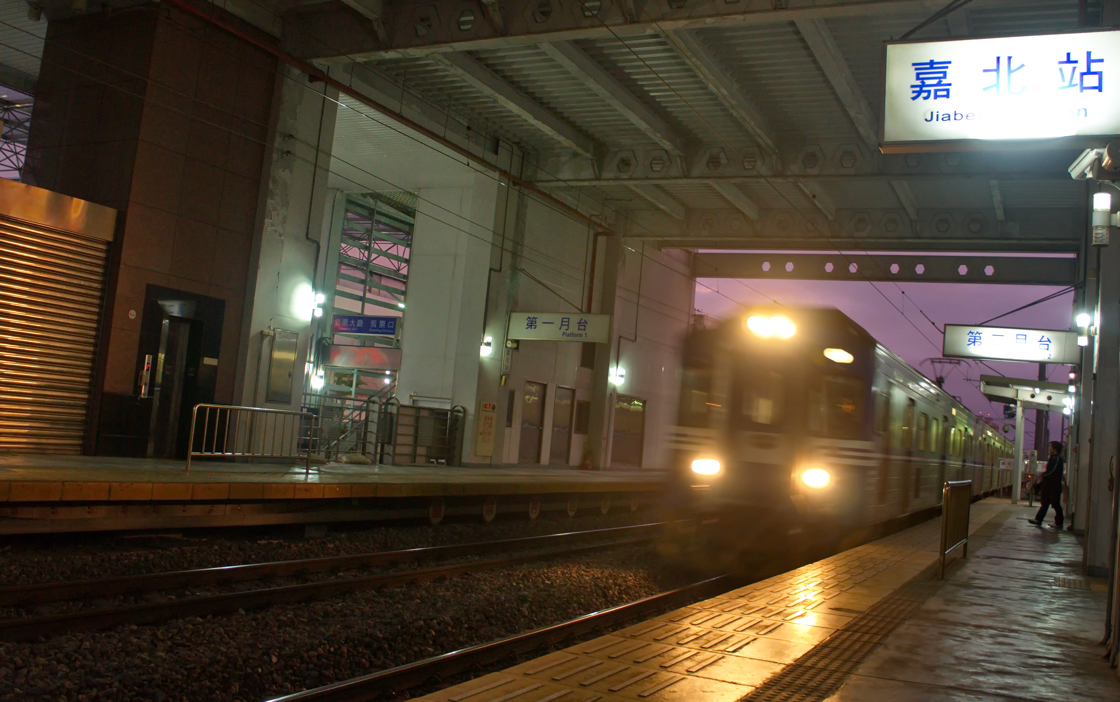 Jiabei Station, Chiayi City, Taiwan.